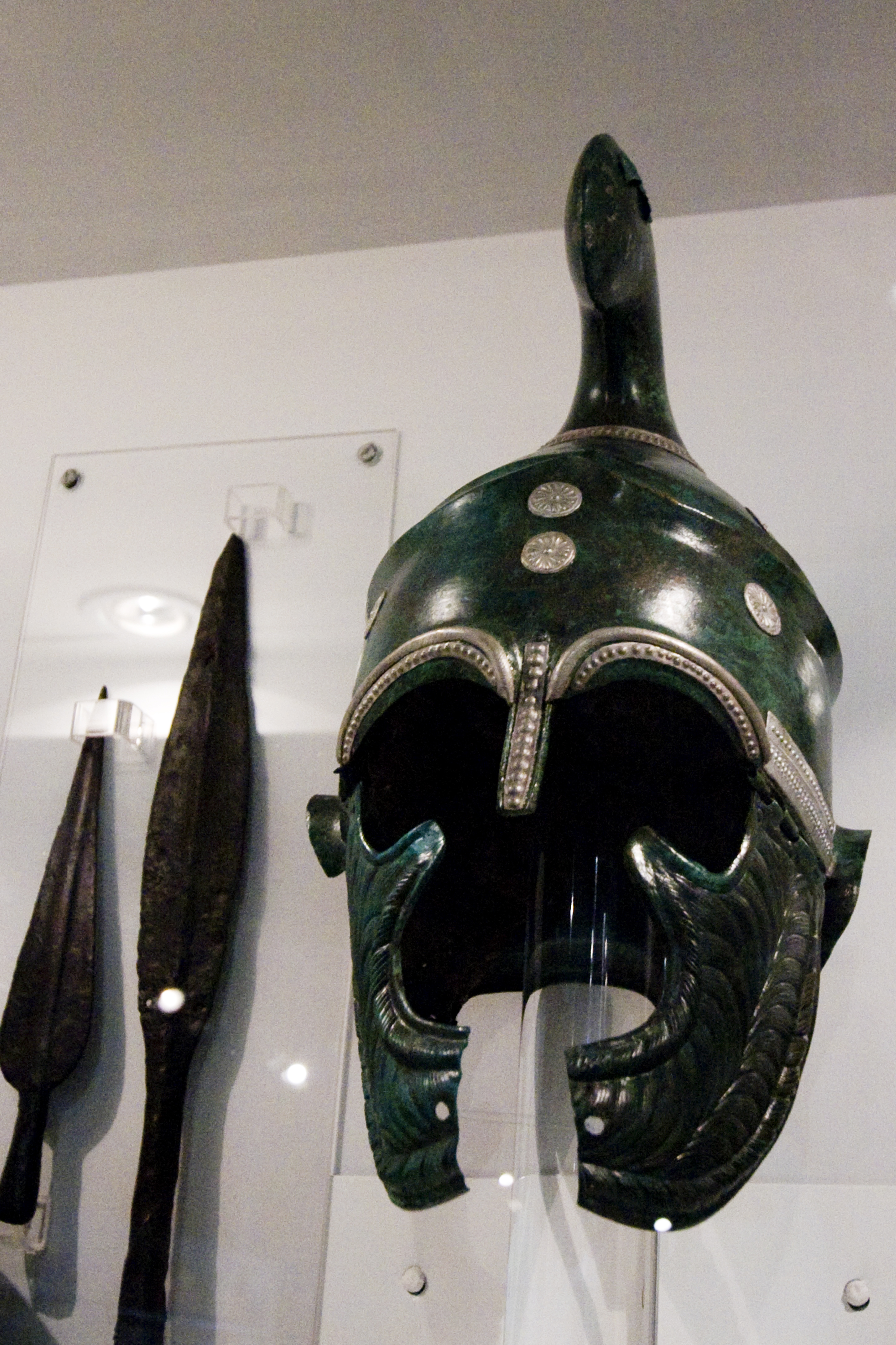 A beautiful Tracian type of helmet with unique decorations made from bronze and silver. Dated to the mid 4th century BC.